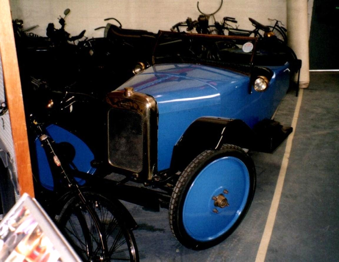 Coventry-Premier 1920